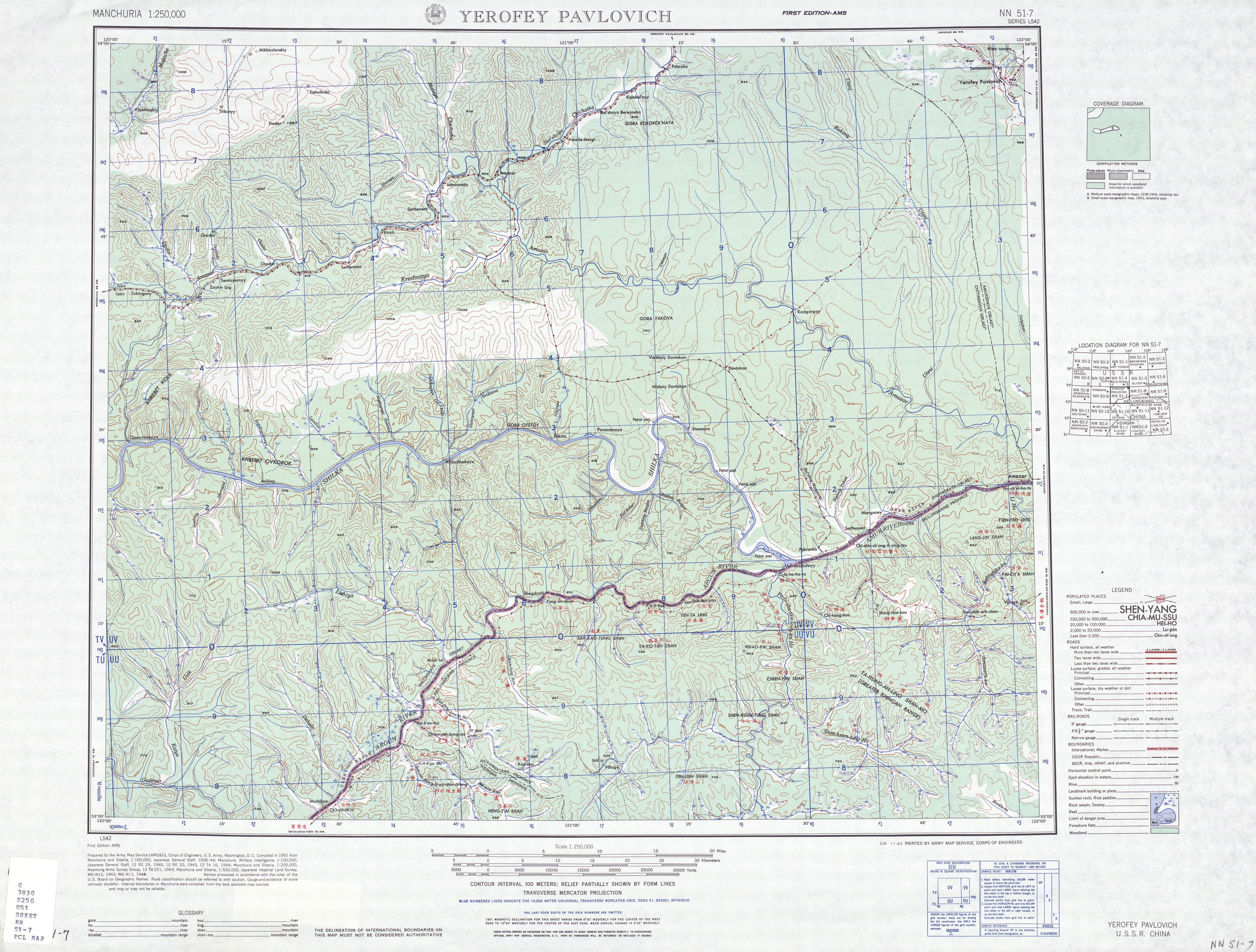 Map of Yerofey Pavlovich area, USSR (present-day Russia)